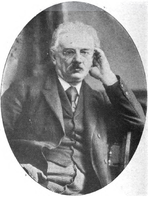 Alfred Ewen Fletcher, journalist and labour activist